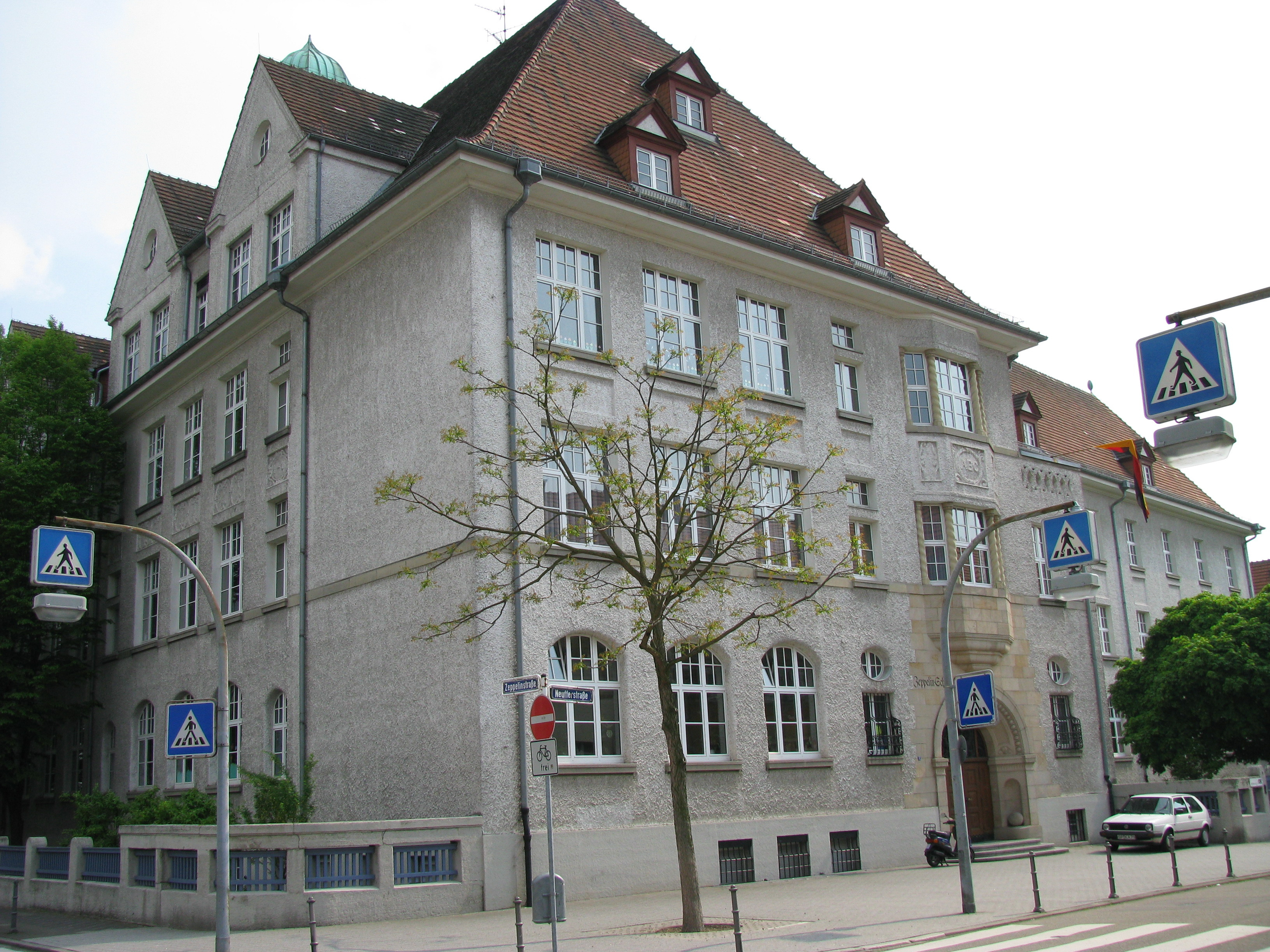 Speyer: Zeppelinschule (Zeppelin Public School), main entrance